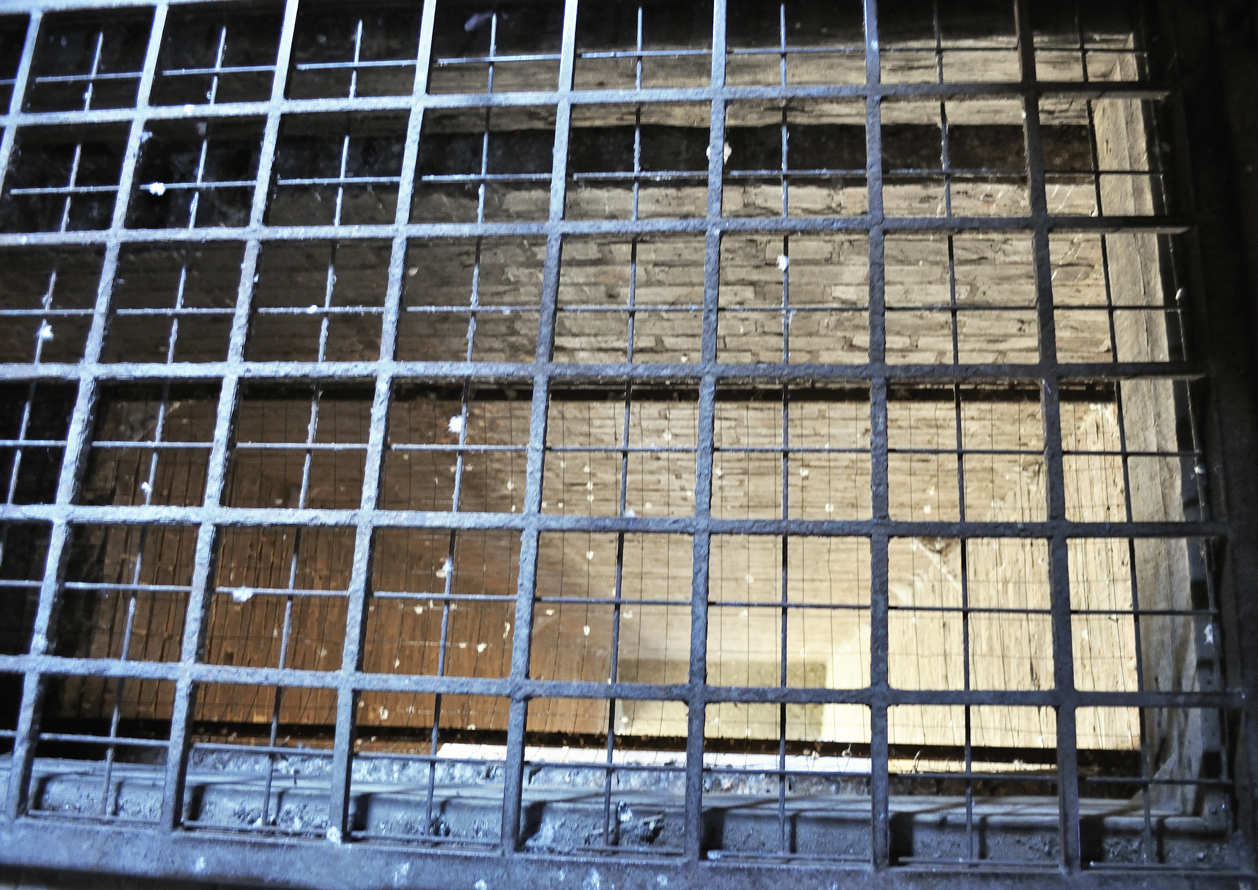 Picture taken in Malborg after Wikimania 2010 conference.